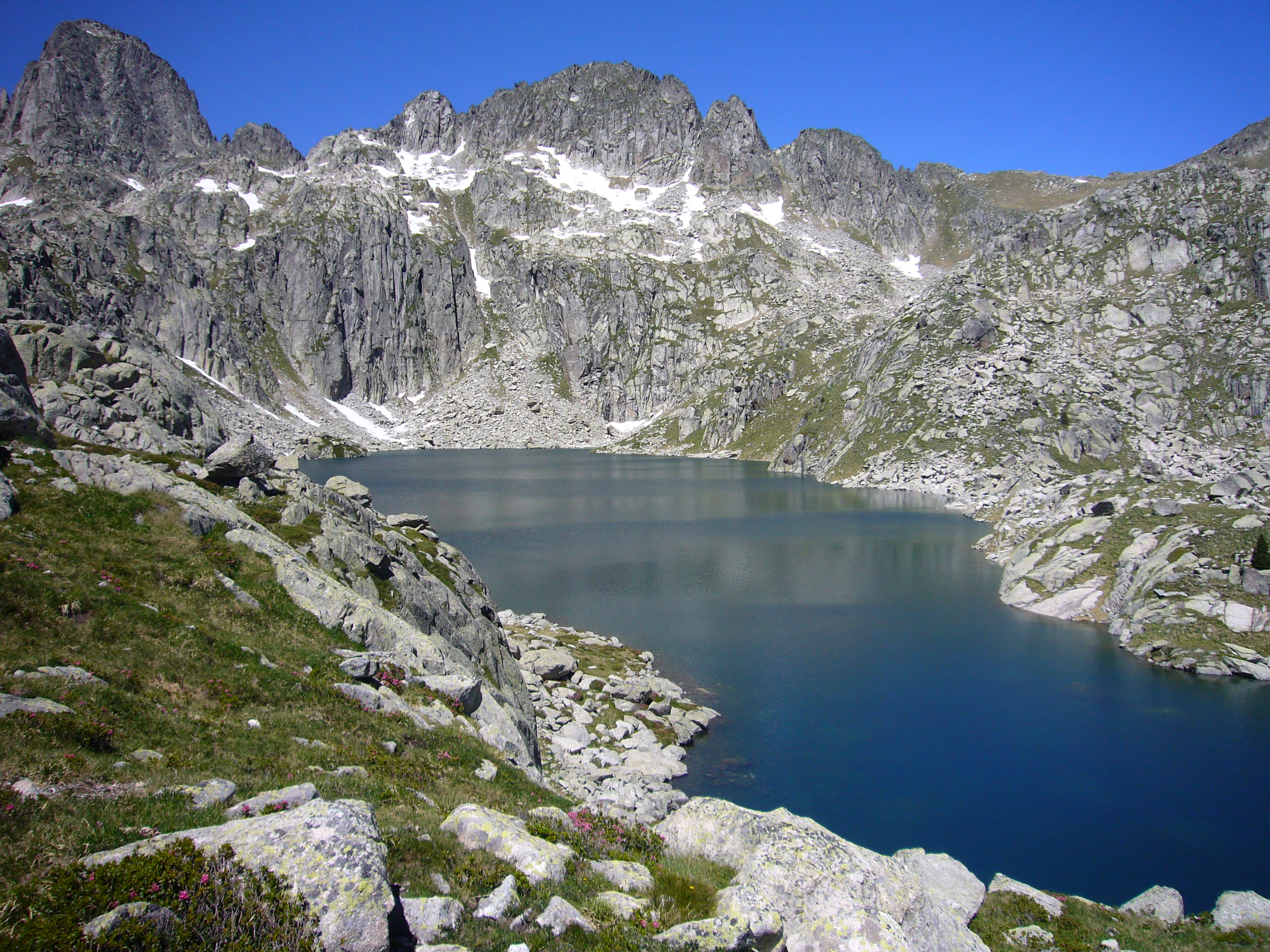 Estany de Tumeneia de Dalt, el Pa de Sucre i Tumeneia; la Vall de Boí, Alta Ribagorça, Catalonia